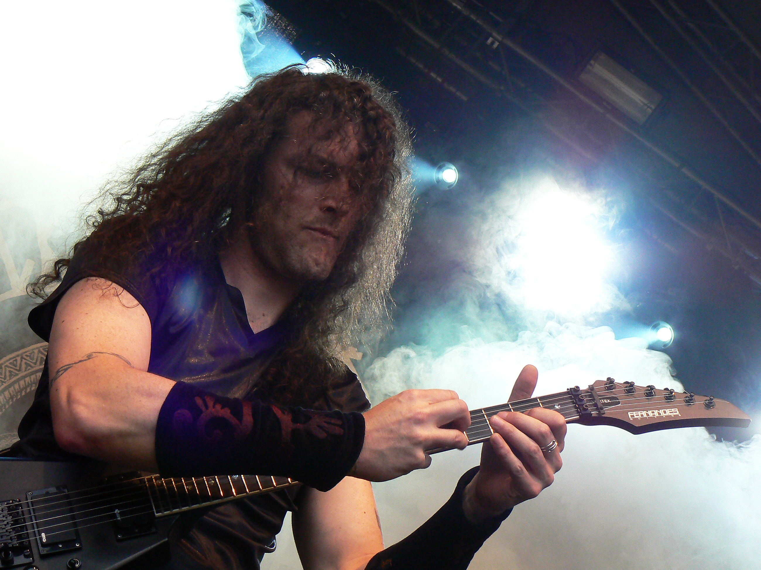 Erik Adam H. Grösch from Mekong Delta at "Kilkim žaibu XII", Lithuania.